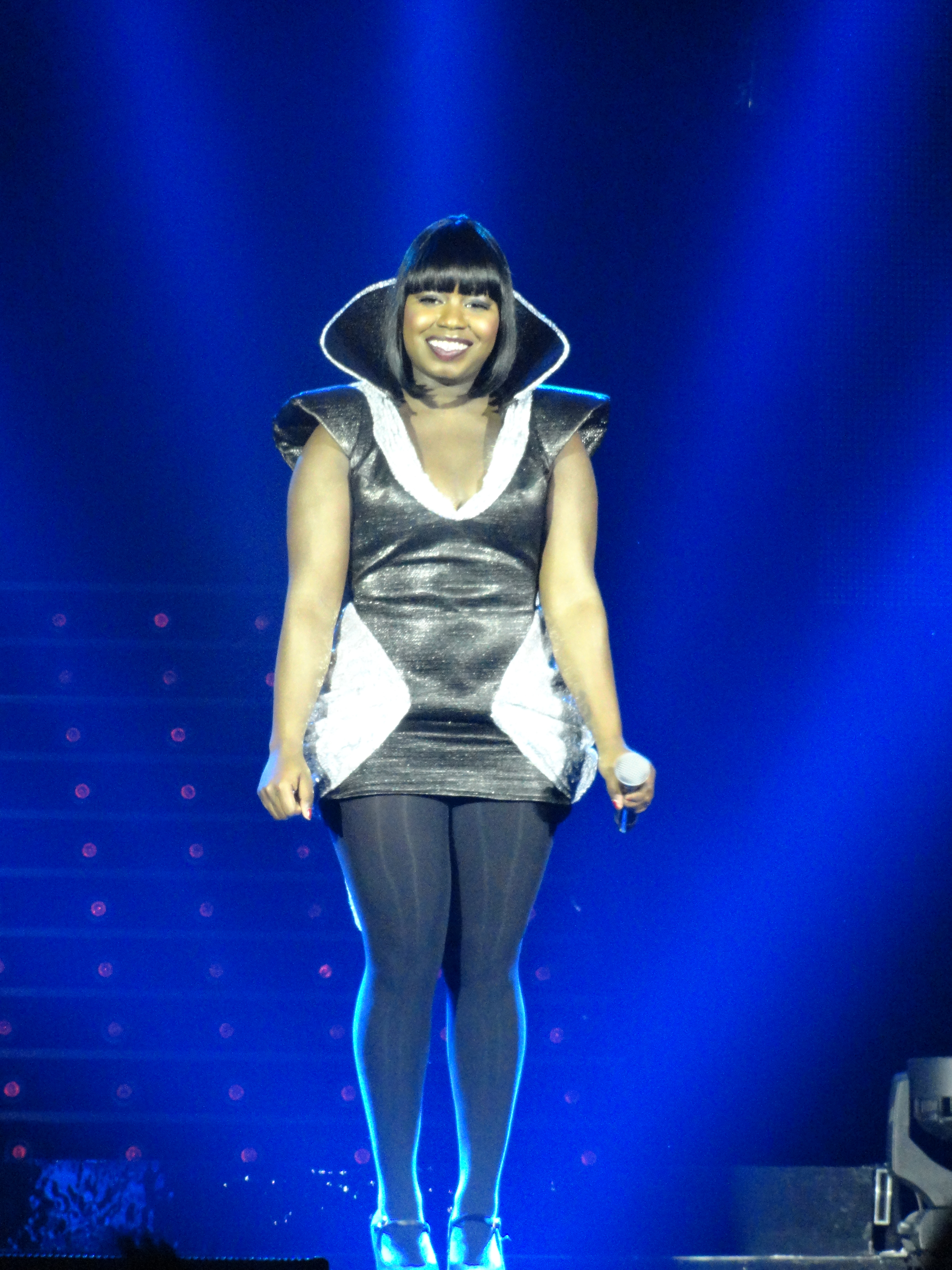 British singer-songwriter Misha B performing in 2012.